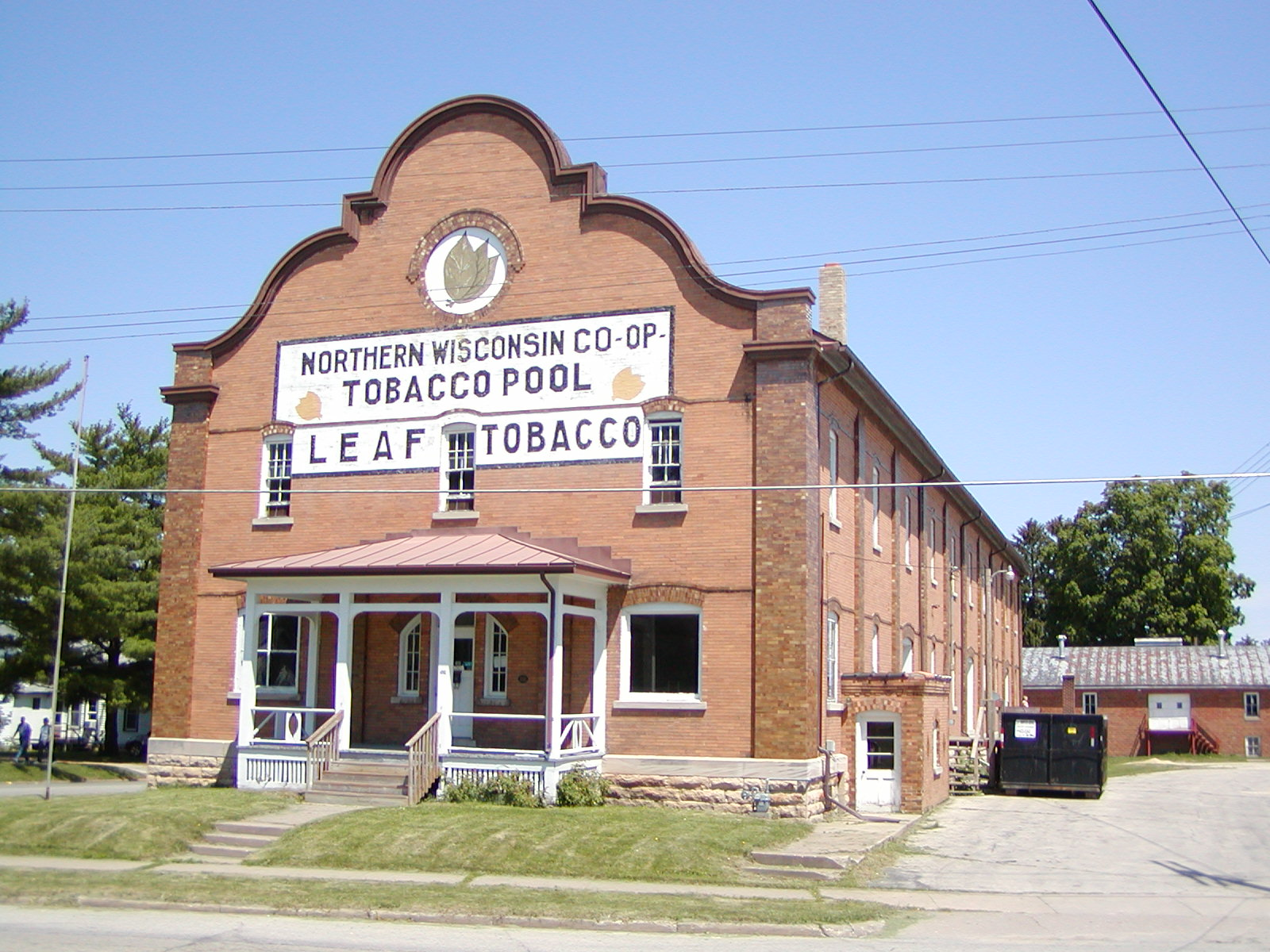 Taken by William Wesen June 2007